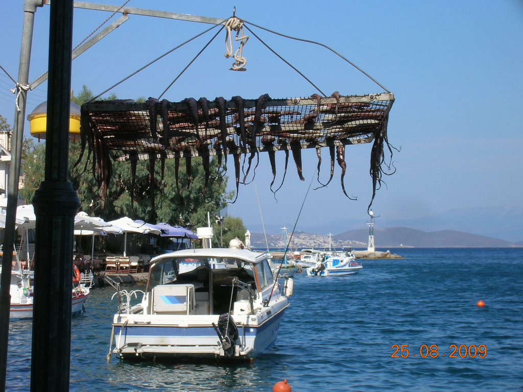 Langada village in Chios, Greece